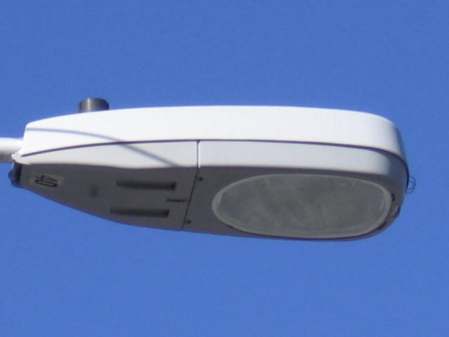 History of street lighting: Hubell RLC full cutoff (200–400 watts)